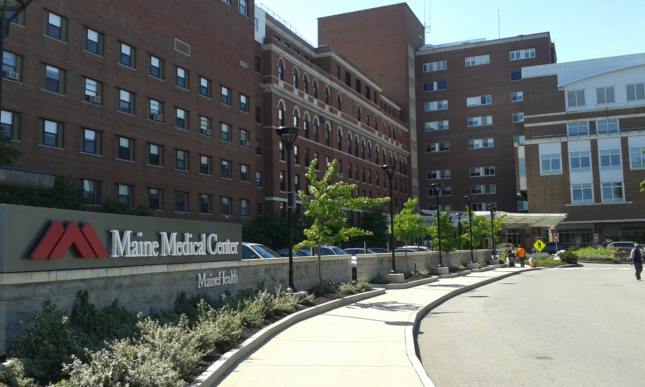 This is a picture of the main entryway of Maine Medical Center, the only Level 1 Hospital in the State of Maine.